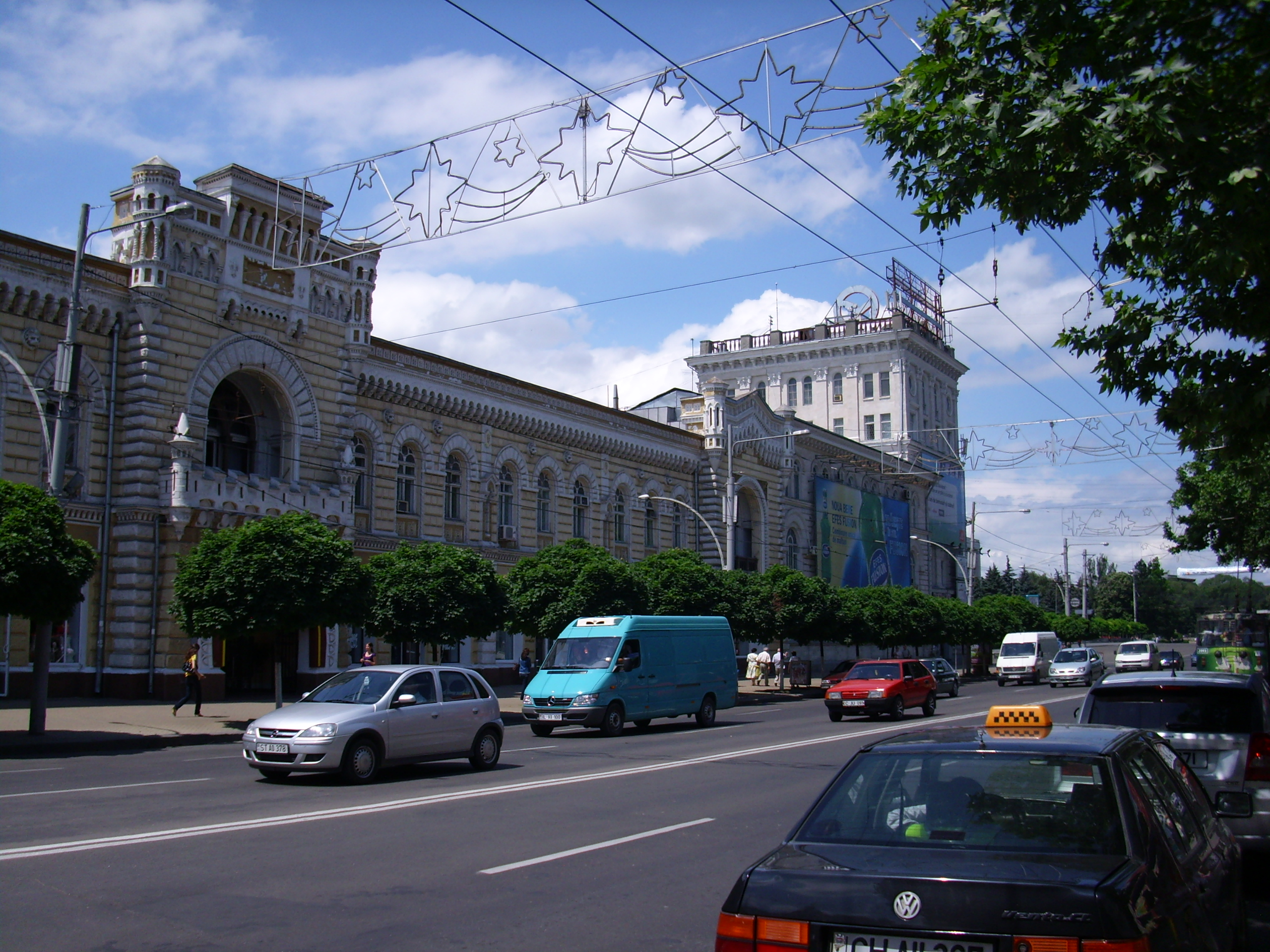 Chisinau / Kishinev, Moldova: City Hall / Primaria - architects Mitrofan Elladi and Alexandru Bernardazzi - Str Vlaicu Pircalab / Bulevardul Stefan Cel Mare - Duma orasaneasca